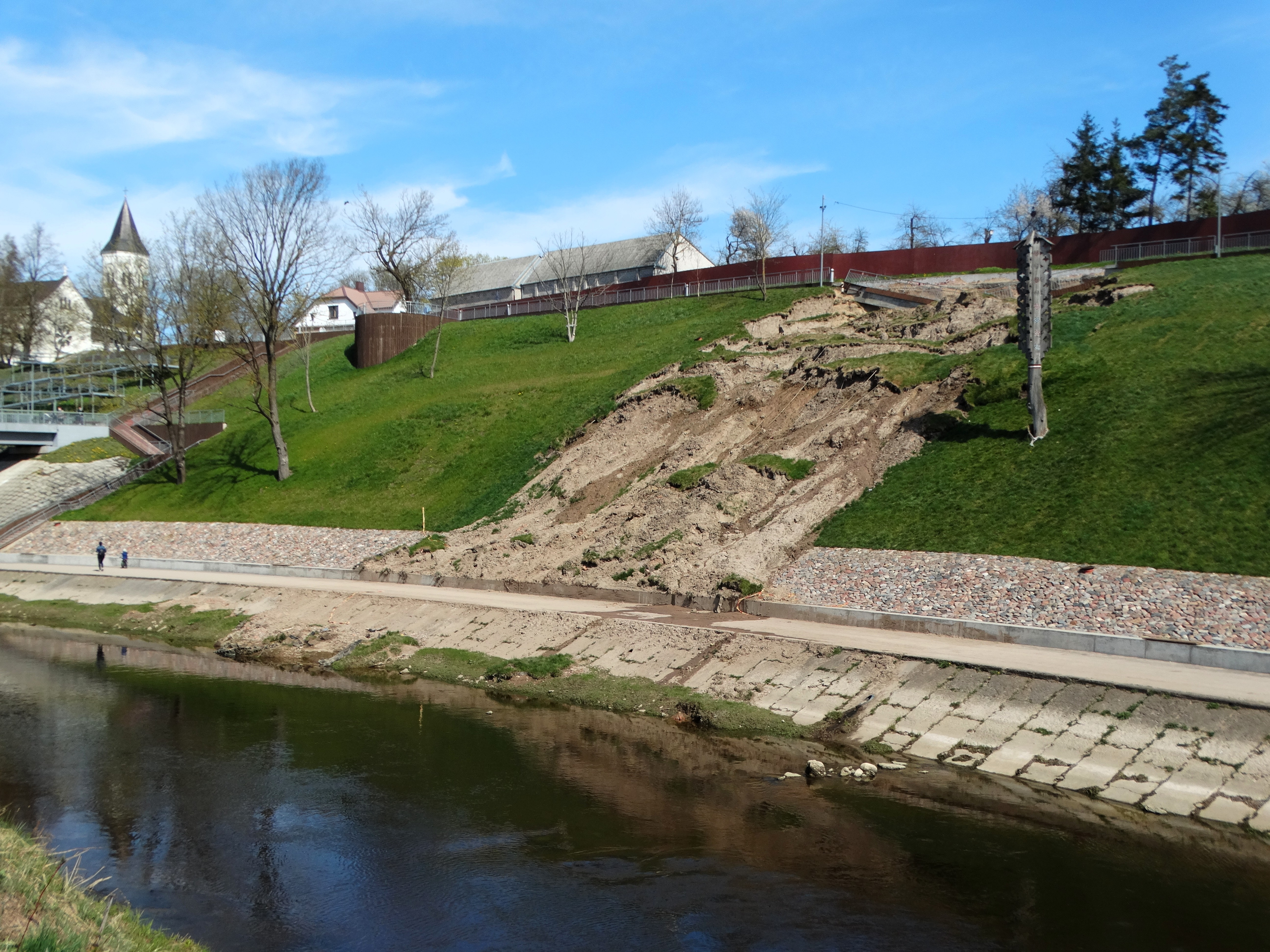 Landslide by the Jūra River, Tauragė, Lithuania